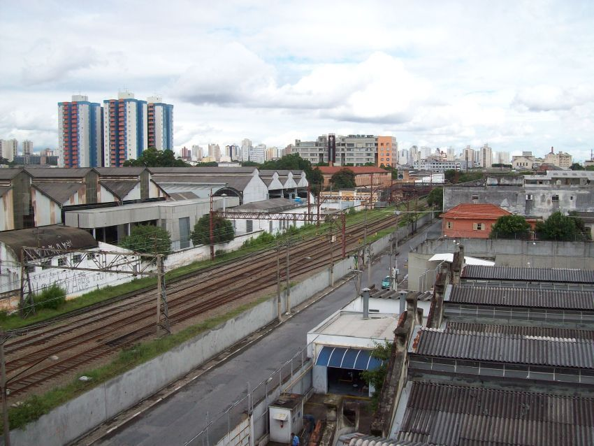 Degradated industrial area, Hipódromo